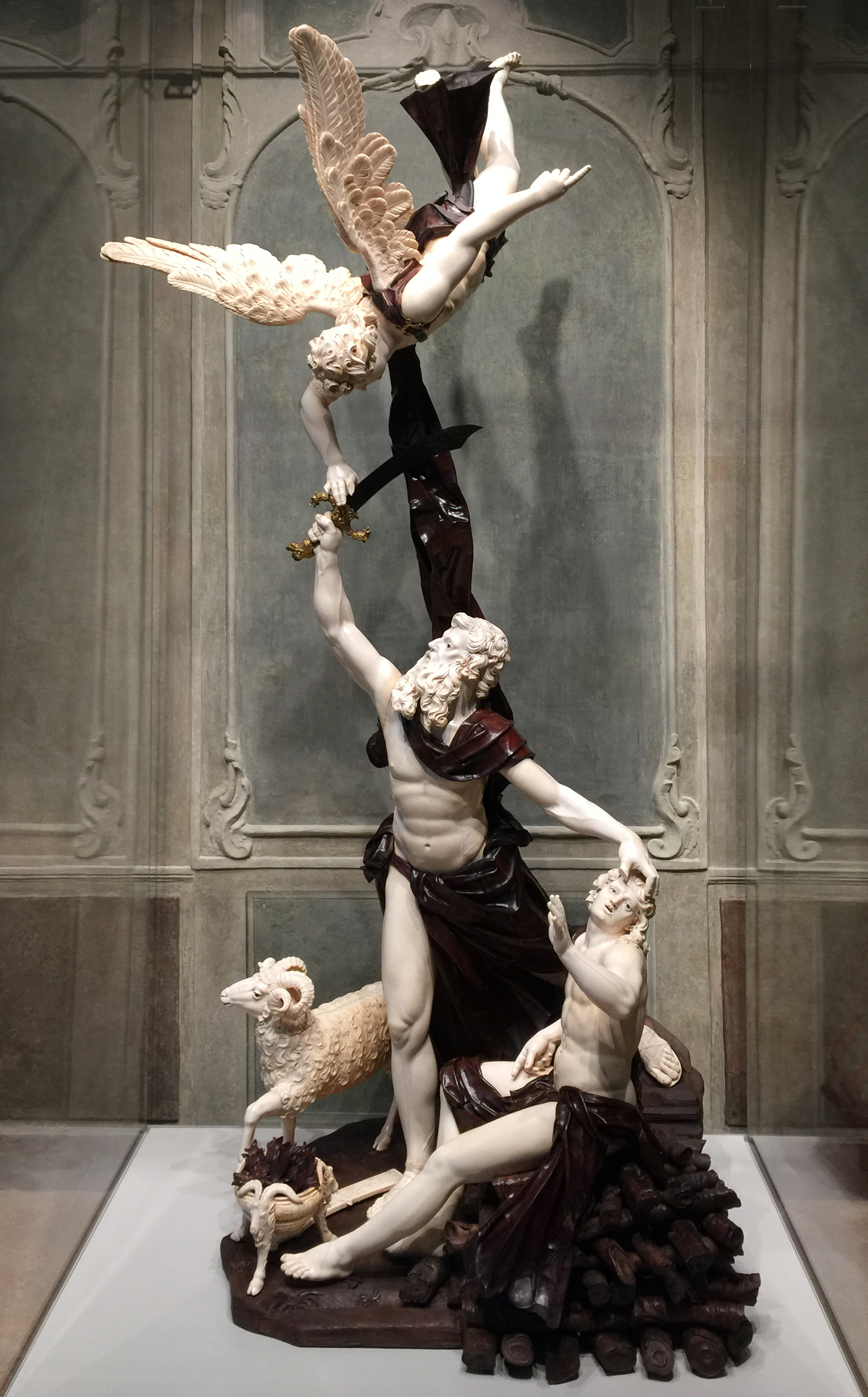 Sculpture of Binding of Isaac in ivory and rosewood by Simon Troger in the Pinacoteca Tosio Martinengo in Brescia Italy.